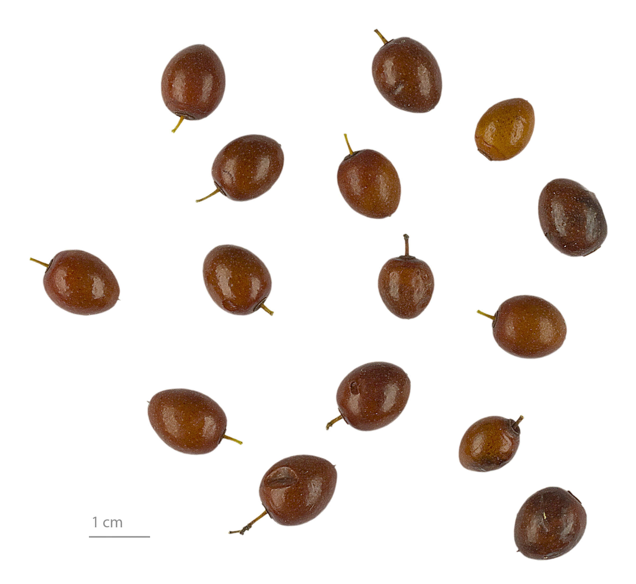 Ziziphus lotus , fruits and seeds